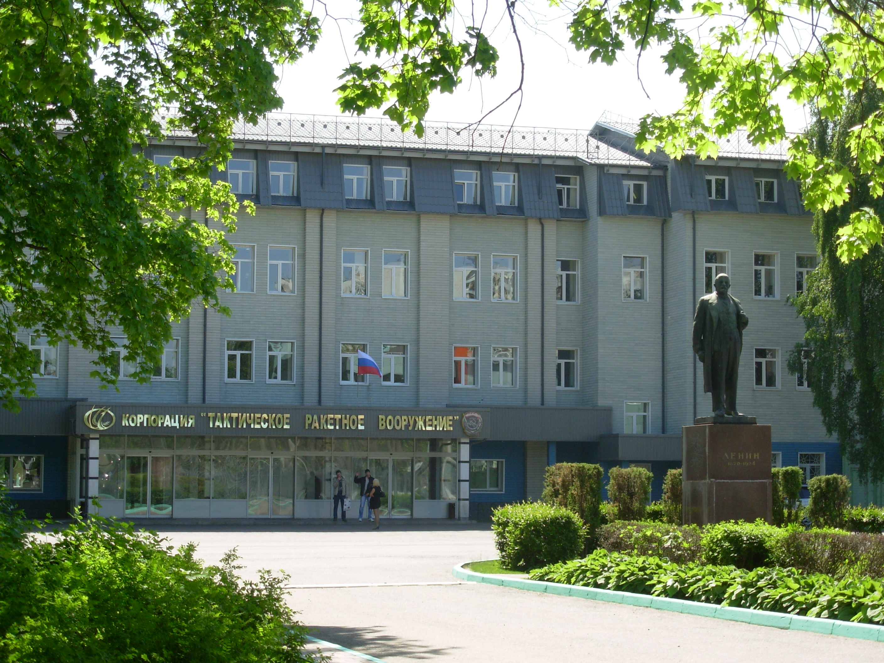 town